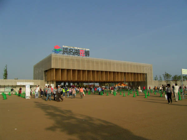 Shizuoka International Garden and Horticulture Exhibition, Pacific Flora 2004 main gate